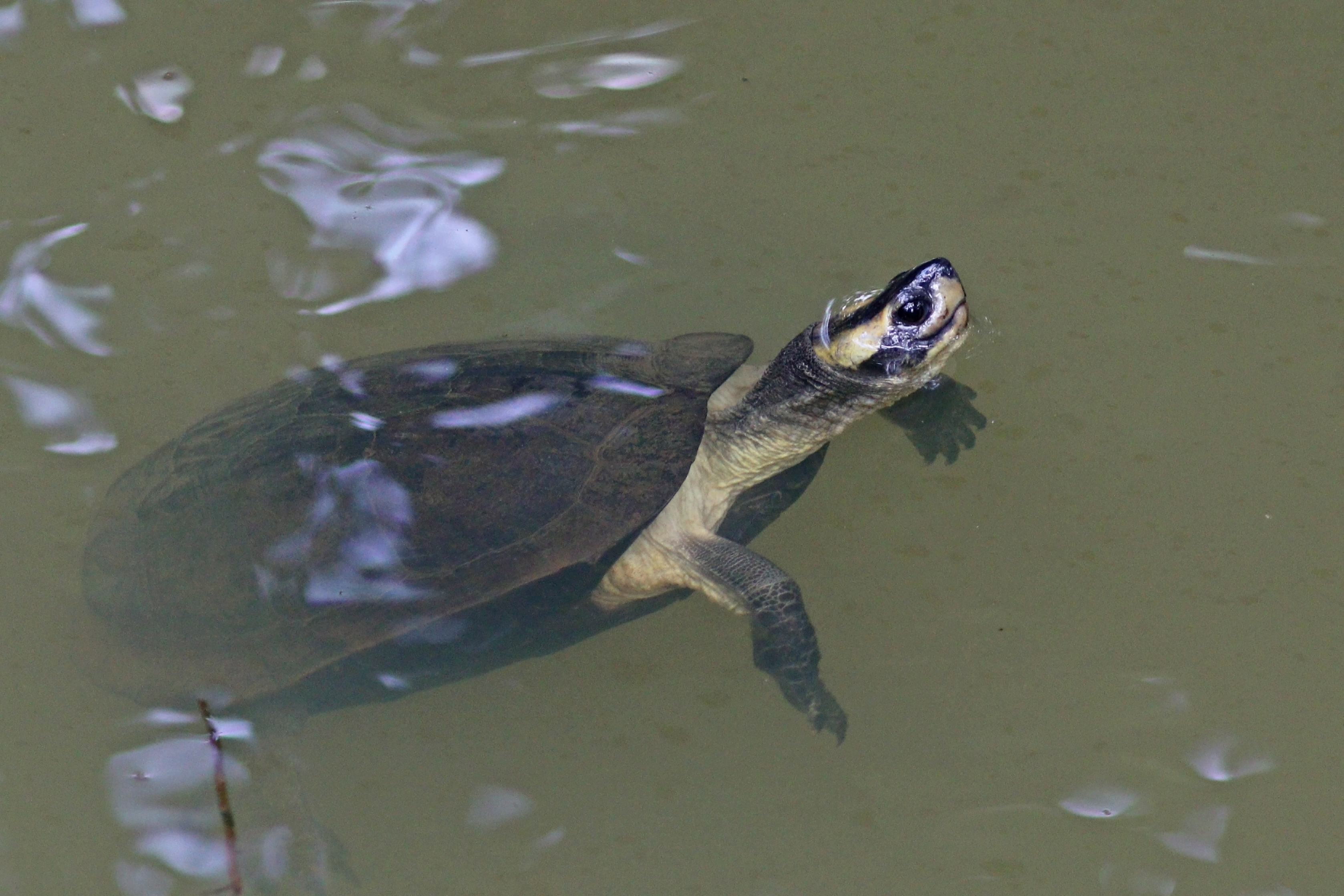 Cochin black turtle (Melanochelys trijuga coronata), Coconut Laggon, Kerala, India